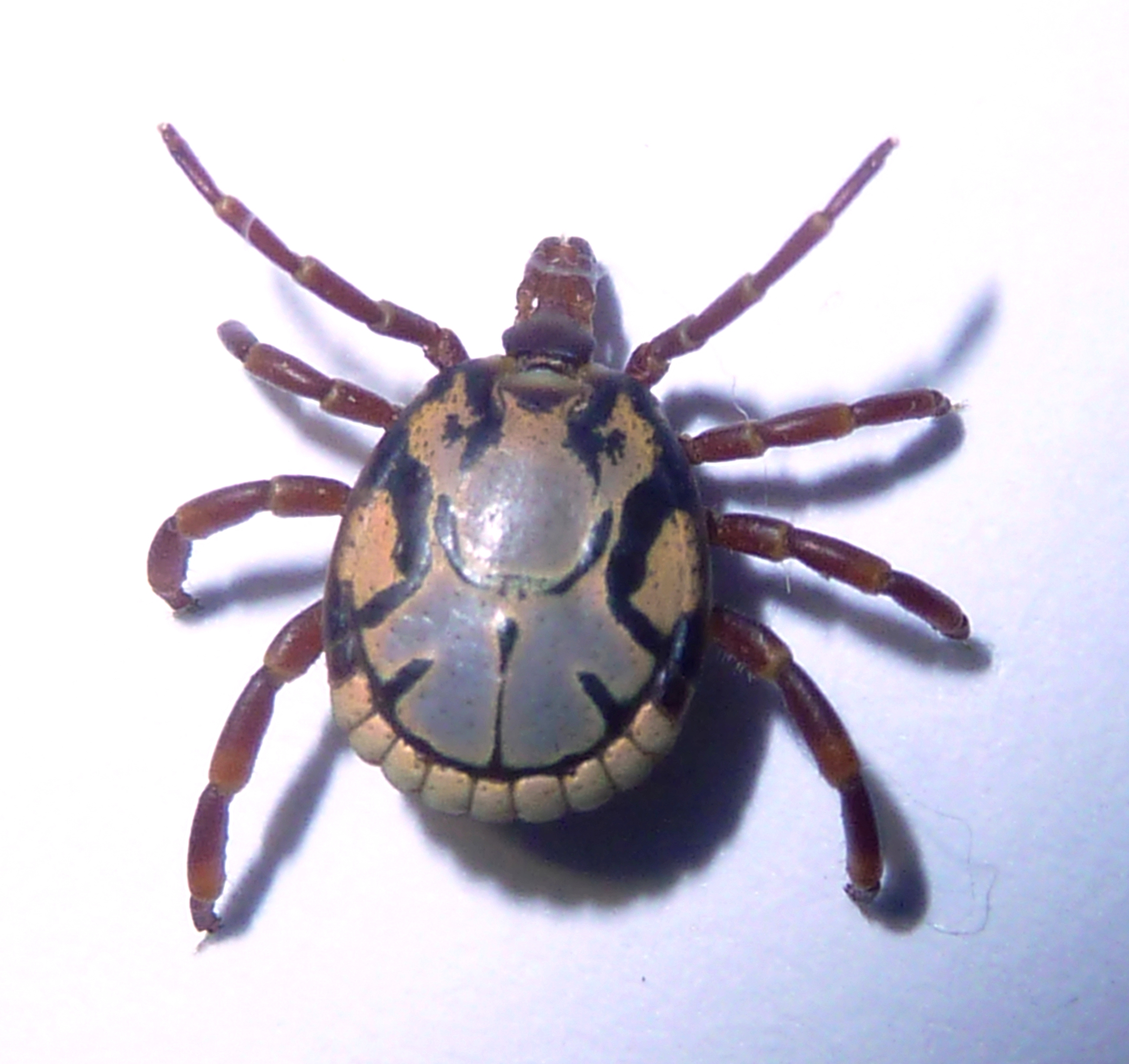 A male South African bont tick at Steenbokpan, Limpopo, South Africa